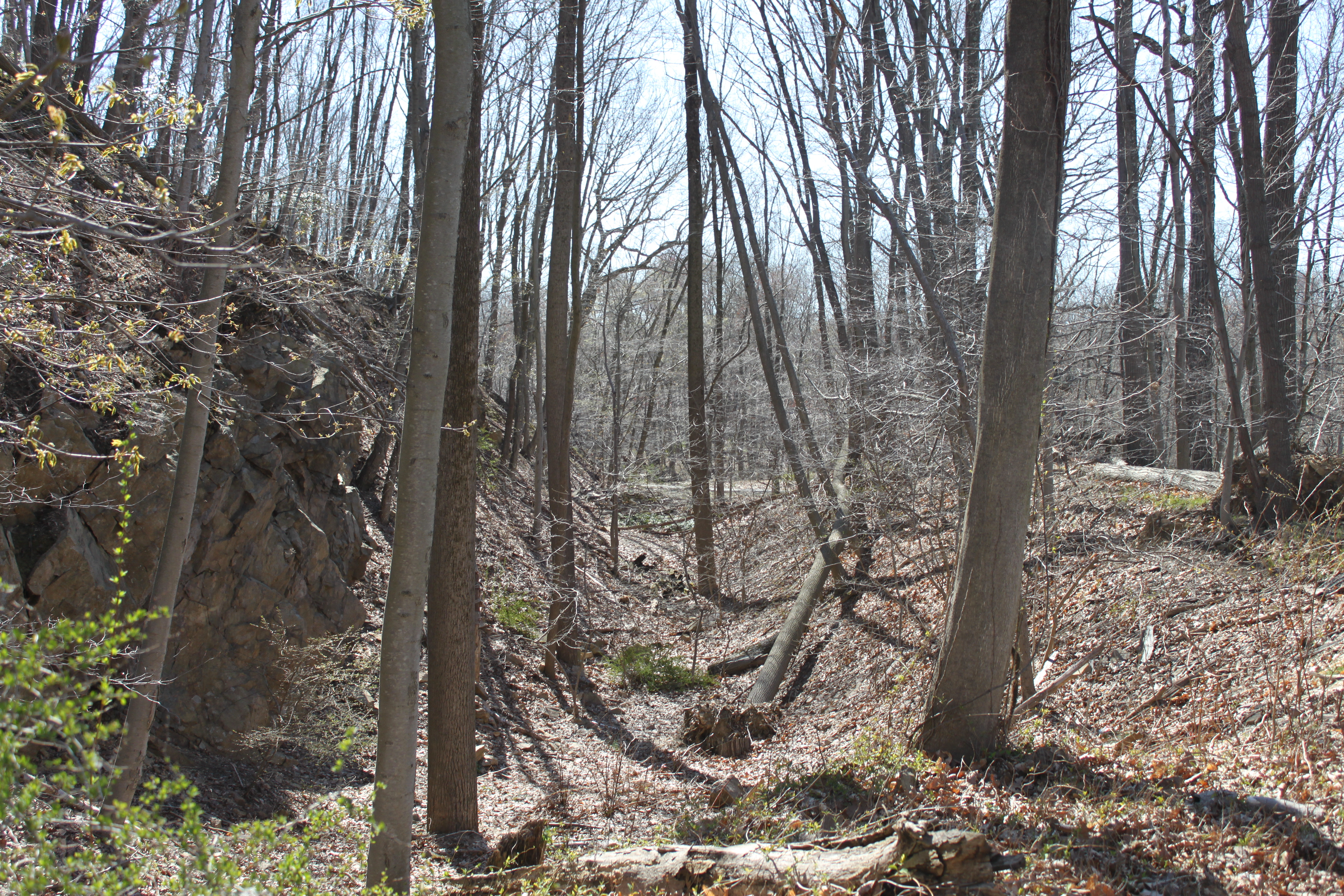 This is a photo of the large cut south of Lake Road in Morris Township, New Jersey, on the Rockaway Valley Railroad Extension to Morristown, NJ, a section of railroad that was never completed.